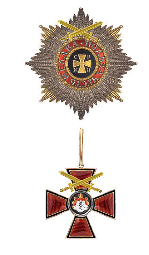 Order of Saint-Vladimir "avec épées au-dessus de l'ordre"